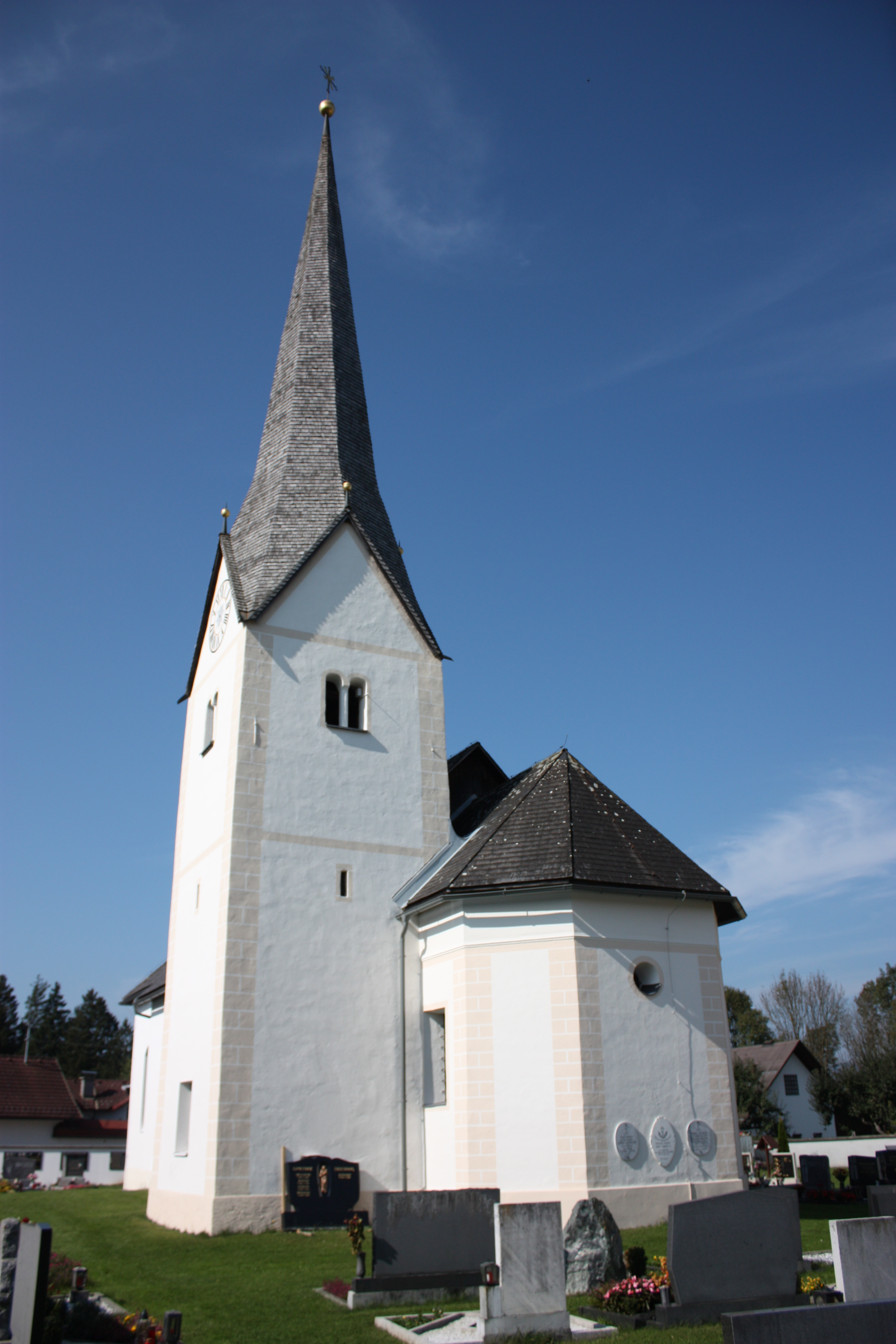 Parish church Saint Vitus Locality: Edling/Kazaze Community:Eberndorf